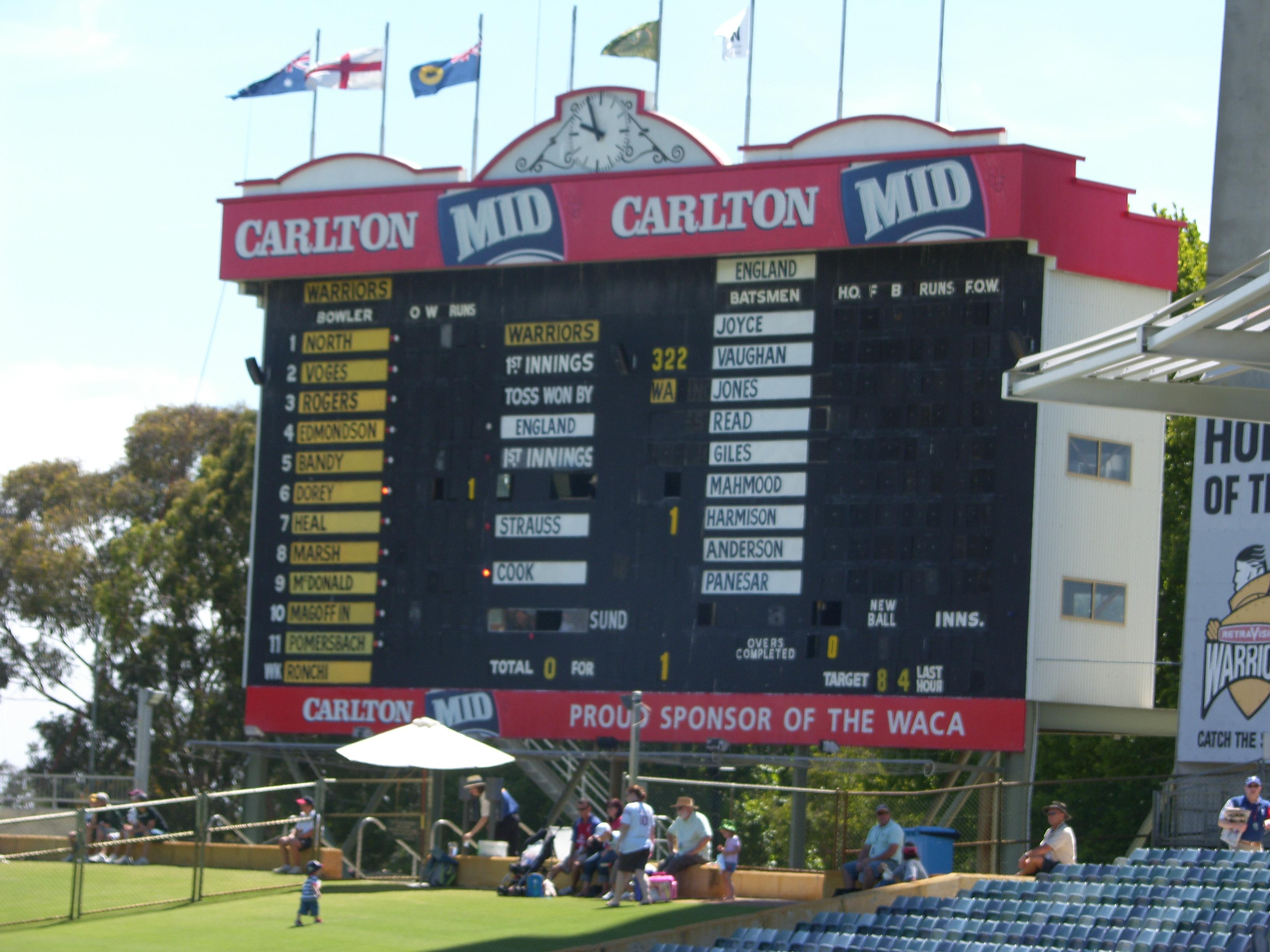 Scoreboard at the WACA